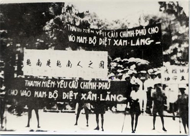 Anti france 1945